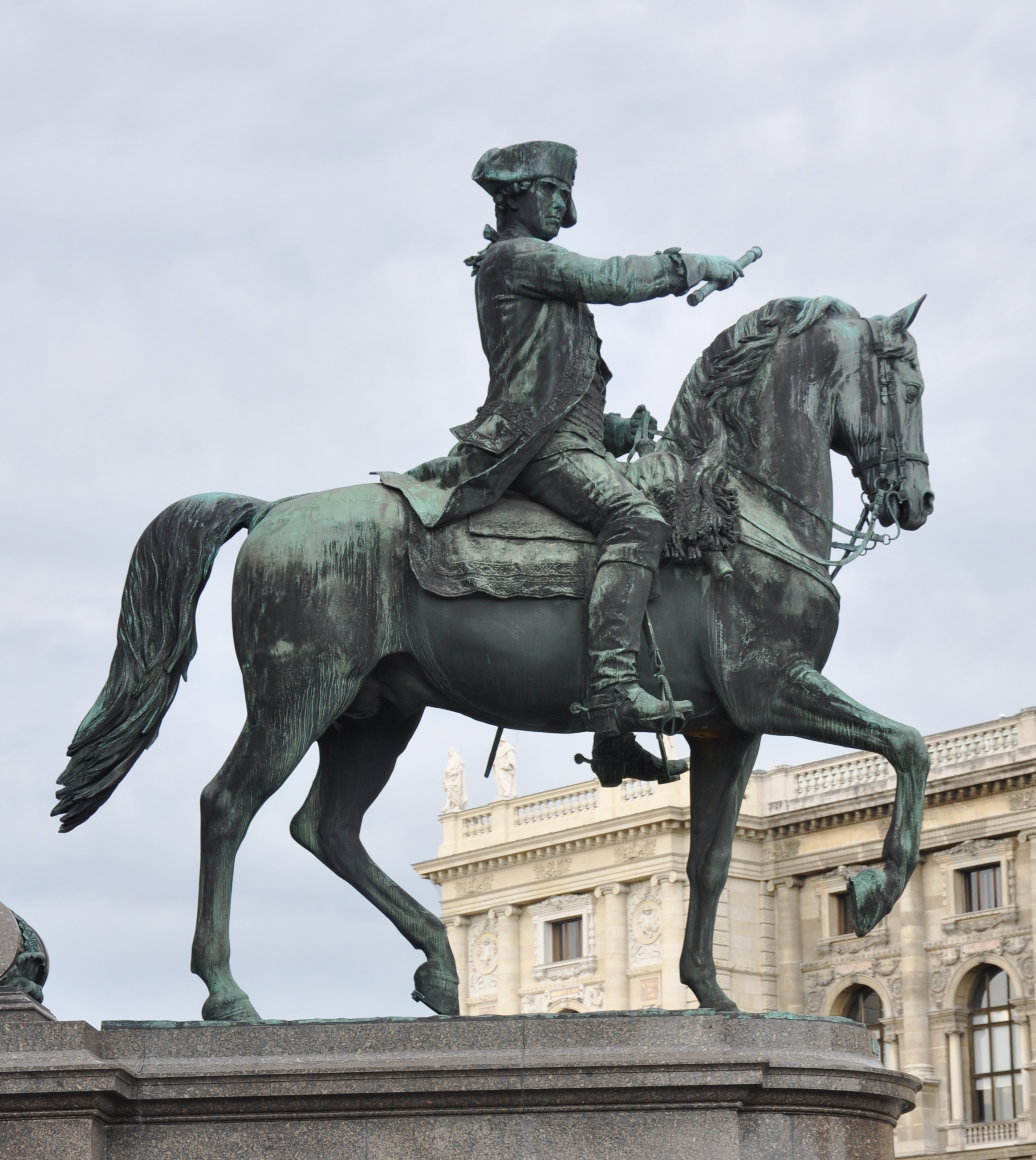 Austria, Vienna, Maria-Theresien-Platz